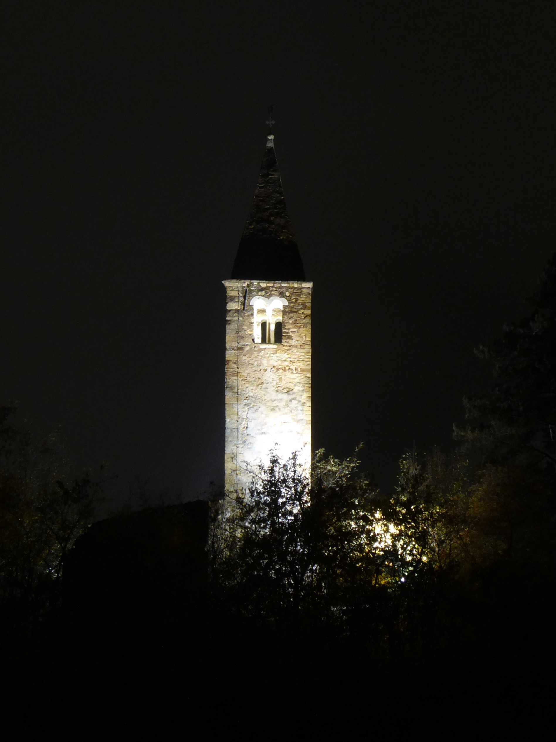 Gazzadina (Trento, Italy) - The belltower of Saint Martin